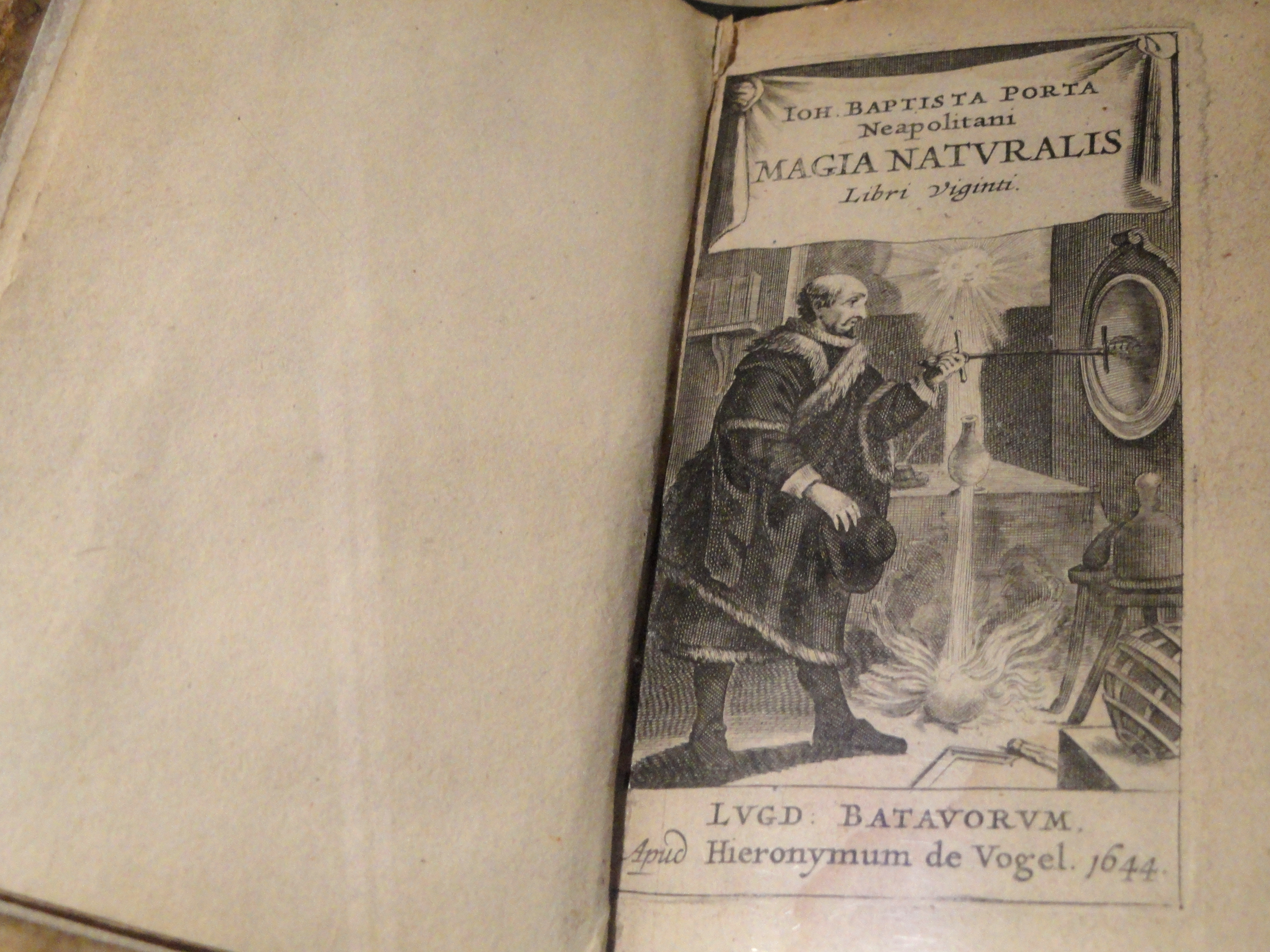 Exhibit in the National Cryptologic Museum, Fort Meade, Maryland, USA. All items in this museum are unclassified; items created by the United States Government are not subject to copyright restrictions.